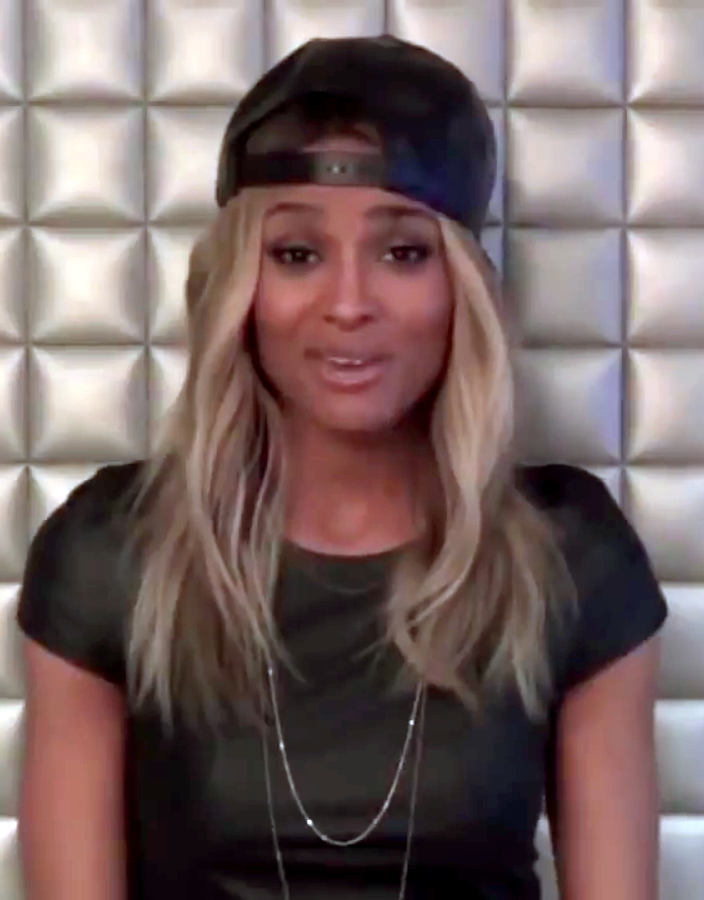 Ciara Official Video Drop Announcement of His performance at ATELIER/FESTIVAL on October 19th 2012 at Meydan Racecourse.